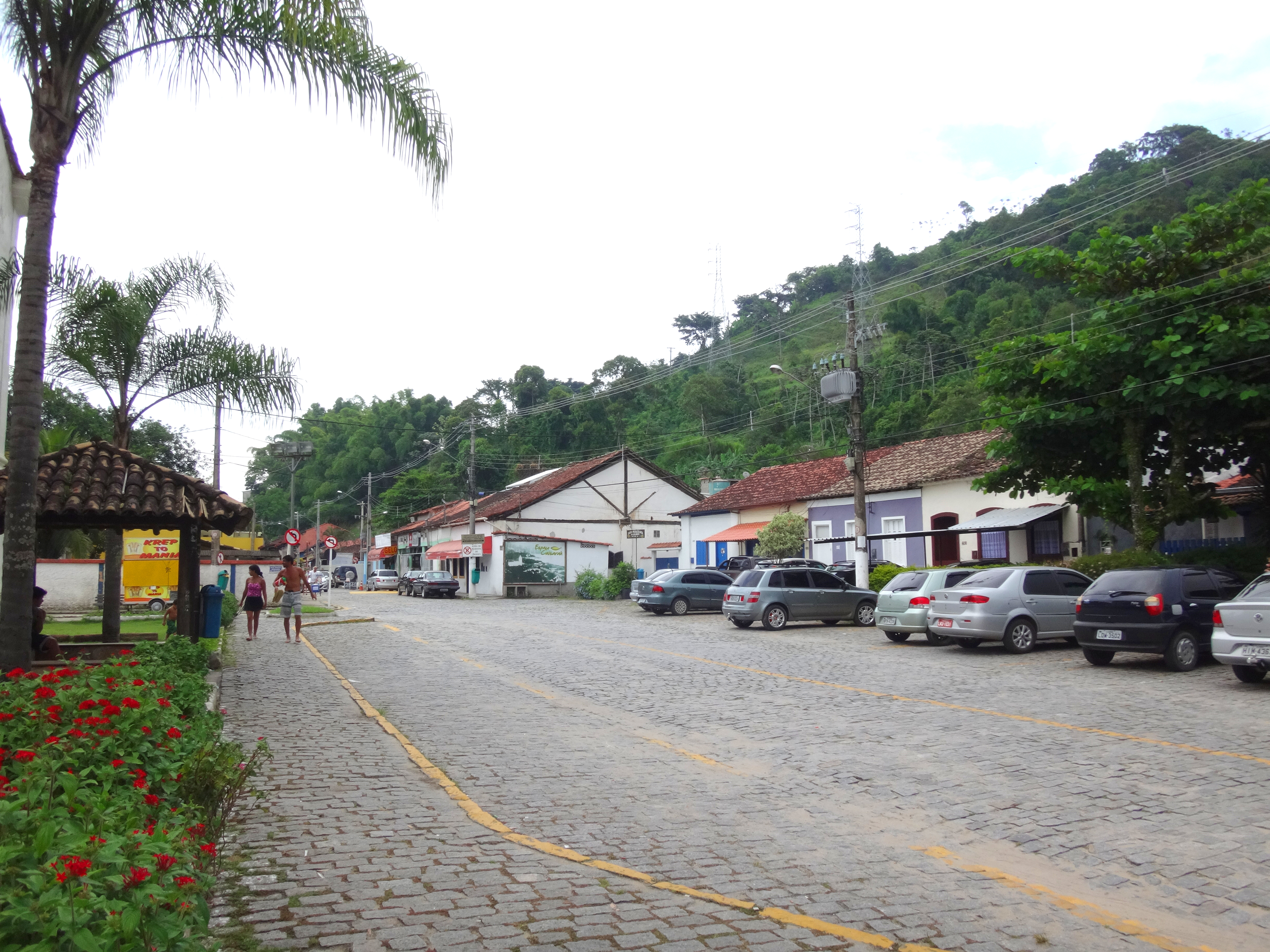 Main street (Rua das Flores) in Mambucaba, Angra dos Reis, Brazil